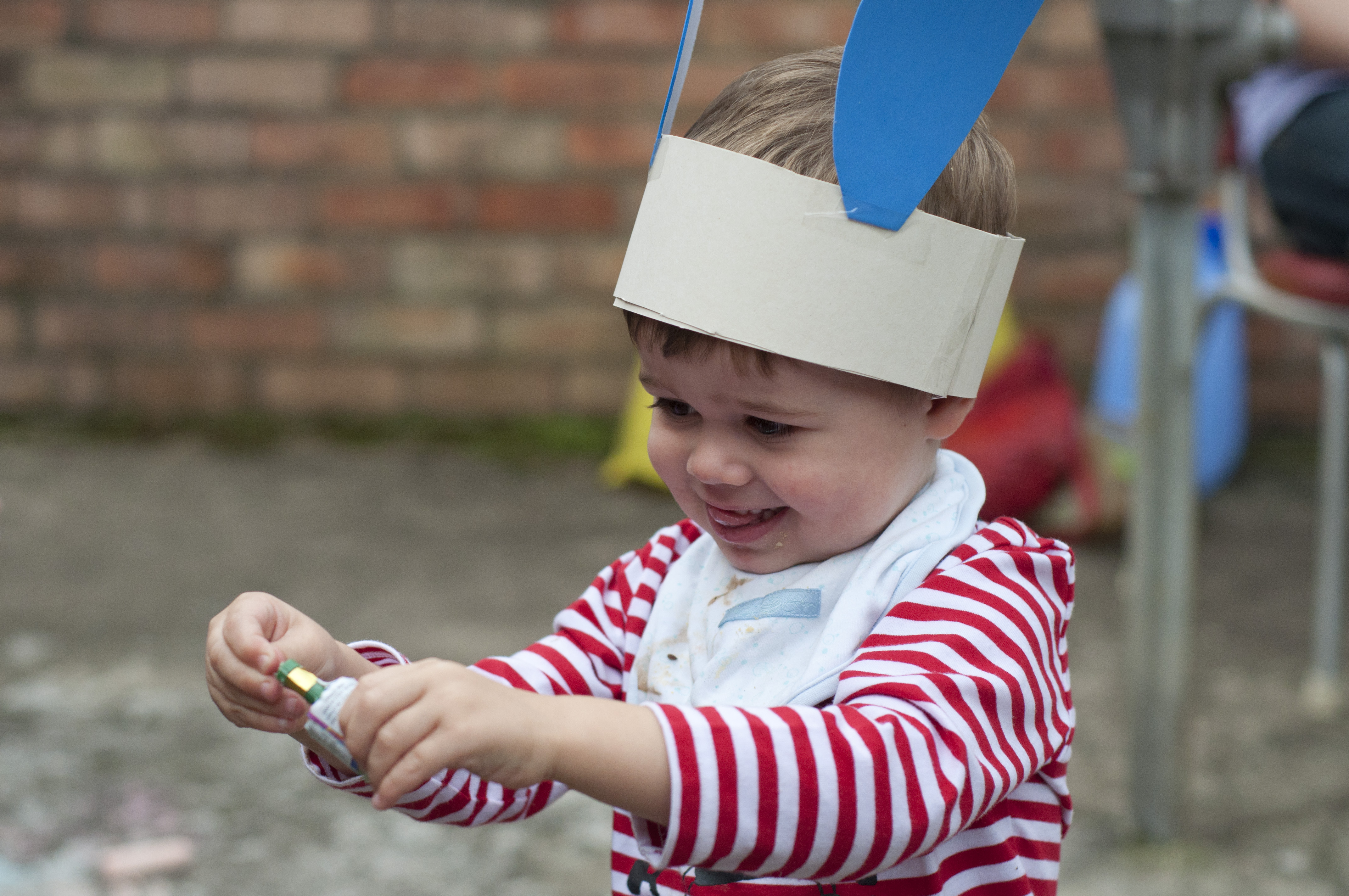 Children with a party popper